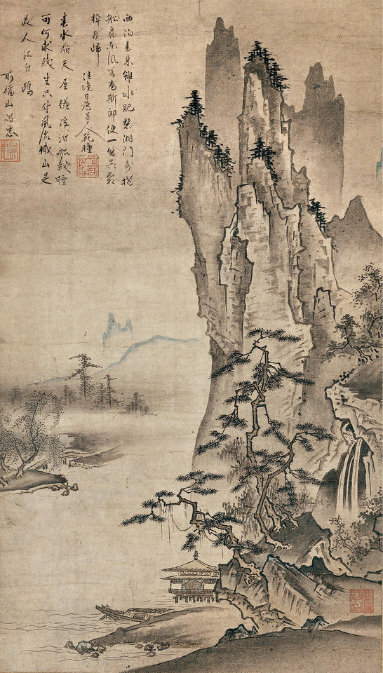 Hanging scroll. Ink and light color on paper. 151.77 × 53.5 cm.